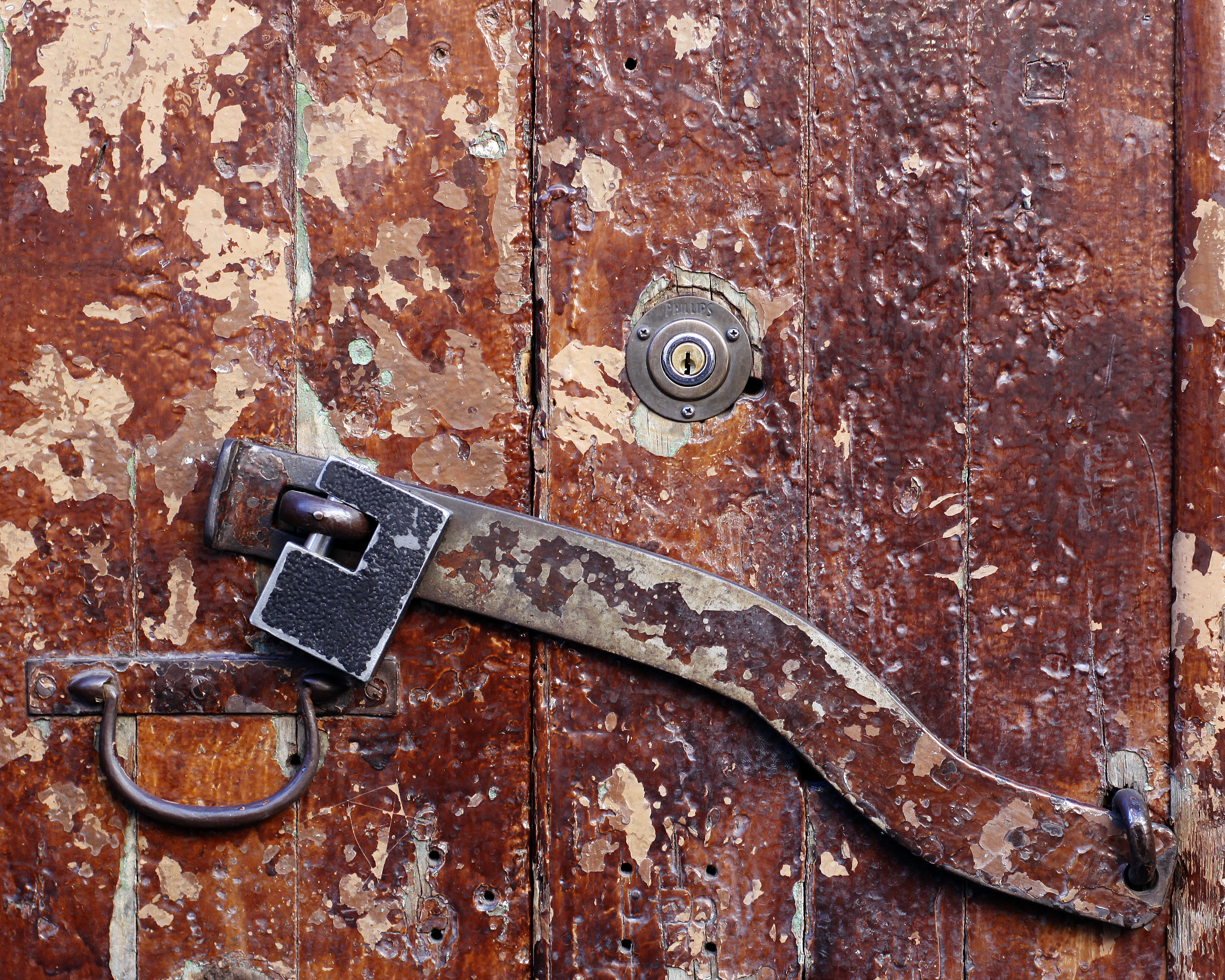 Old door, new lock